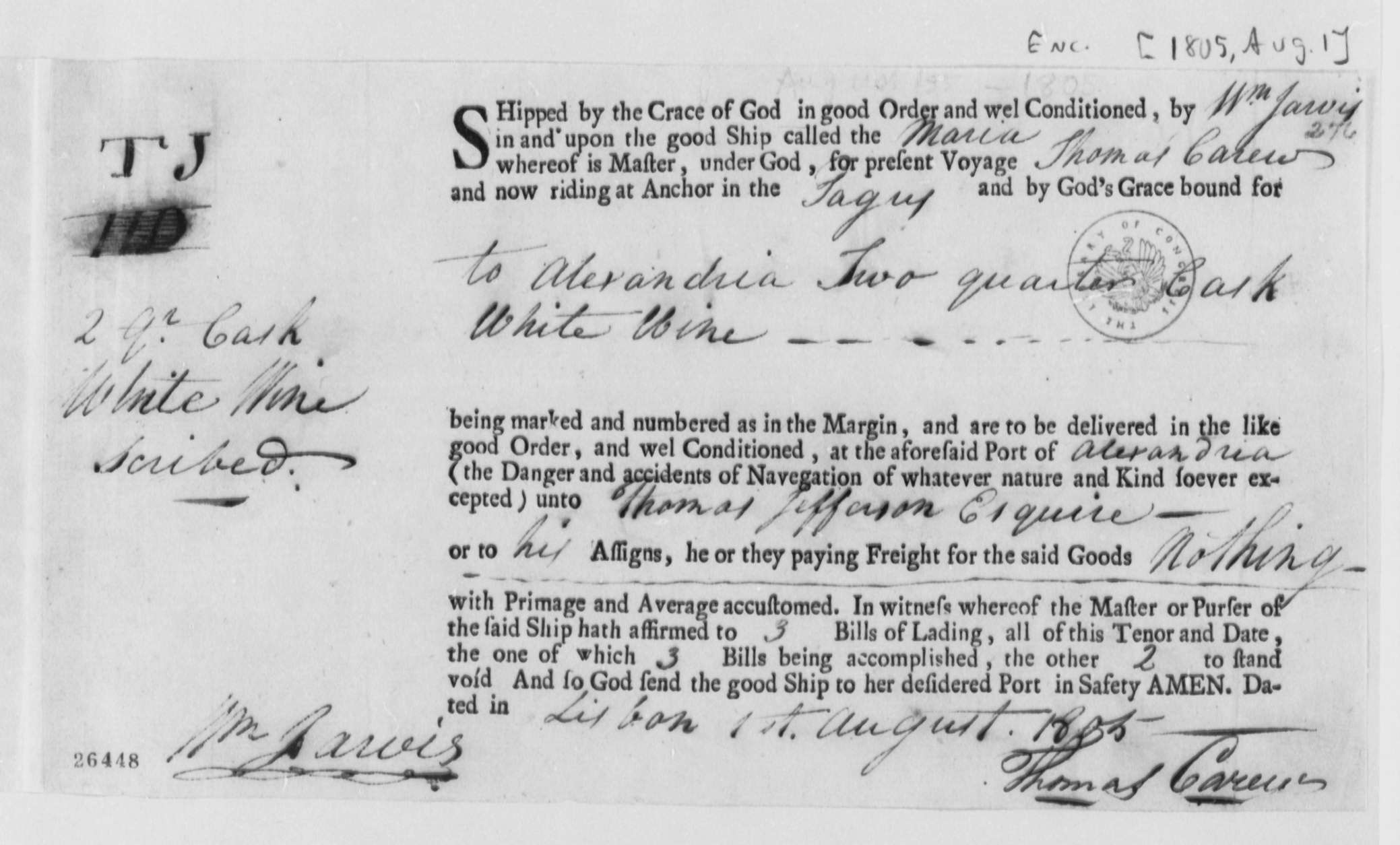 Bill of lading for casks of wine shipped by United States Consul from Lisbon, Portugal, William Jarvis to President Thomas Jefferson. Cases of wine shipped to Alexandria, Virginia. The bill of lading accompanies a letter between the frequent correspondents Jarvis and Jefferson. The Thomas Jefferson Papers, Series 1, General Correspondence, The Library of Congress, Washington, D.C.